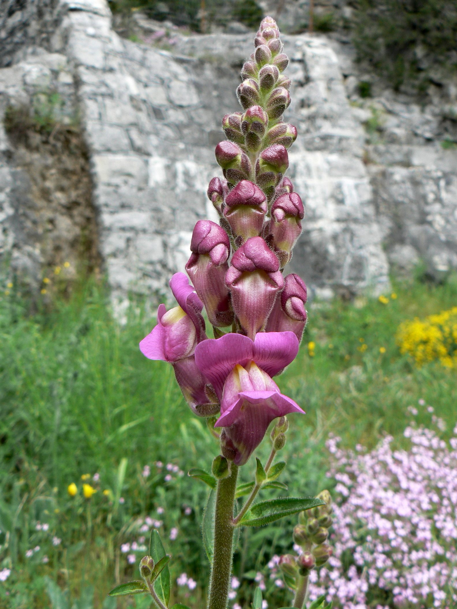 Antirrhinum majus, Gorges de la Vis, France